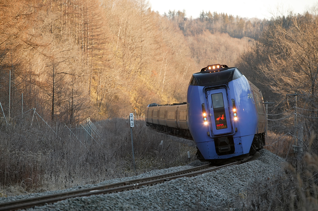 JR Hokkaido's 283 series DMU, operating as the LTD. Express Super Ōzora ( 4004D, Urahoro Stn.. - Kami-atsunai Stn. ).